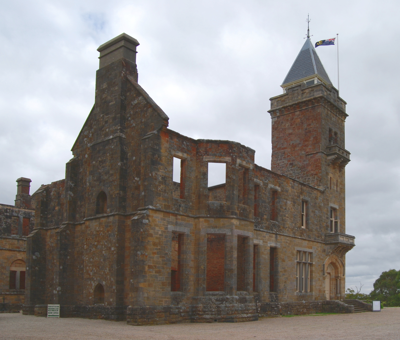 Marble Hill Ruins - former South Australian Governer's summer residence.